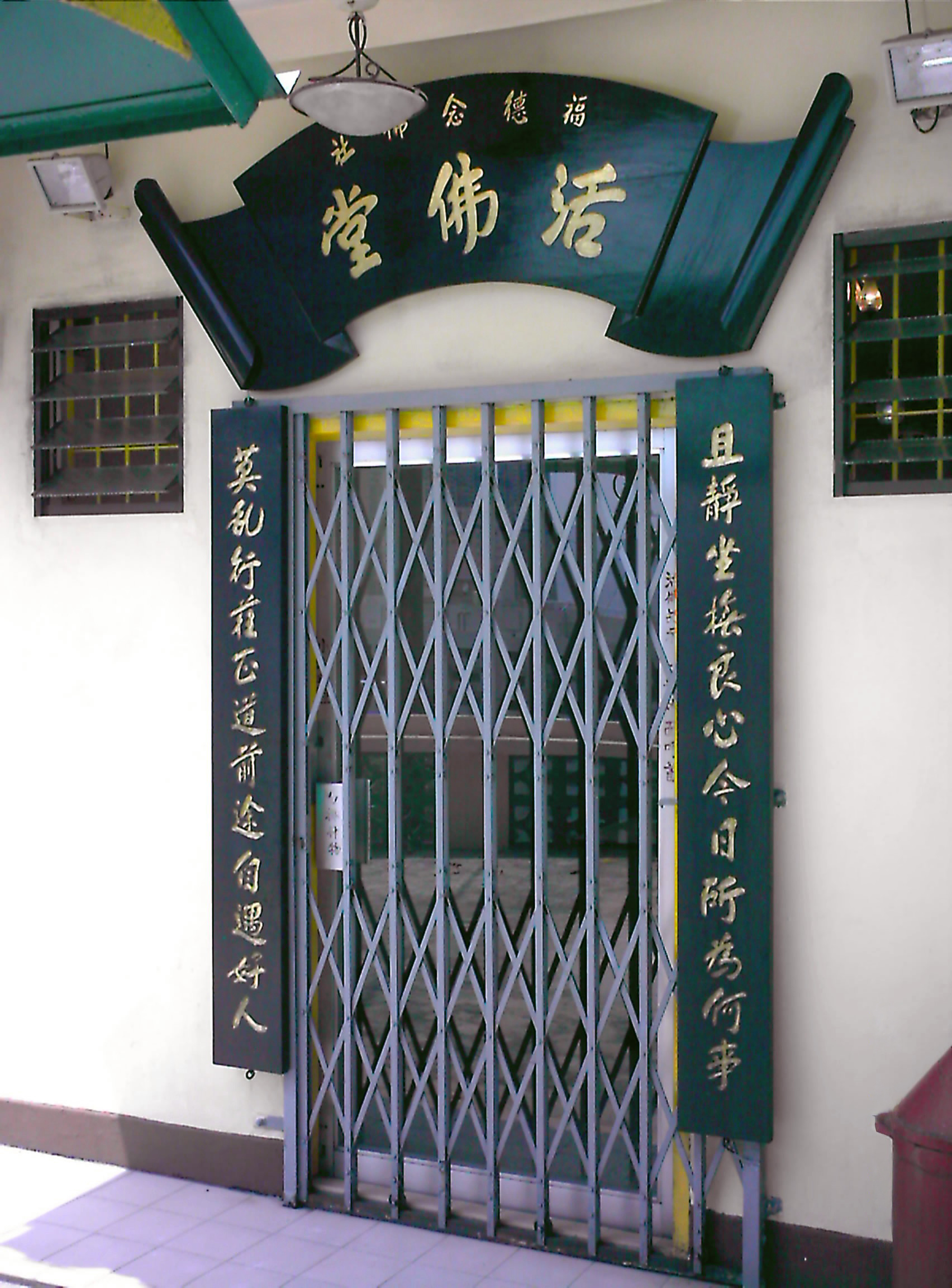 Jigong Hall, Hong Kong and Kowloon Fuk Tak Buddhist Association 中文（香港）: 港九福德念佛社，活佛堂